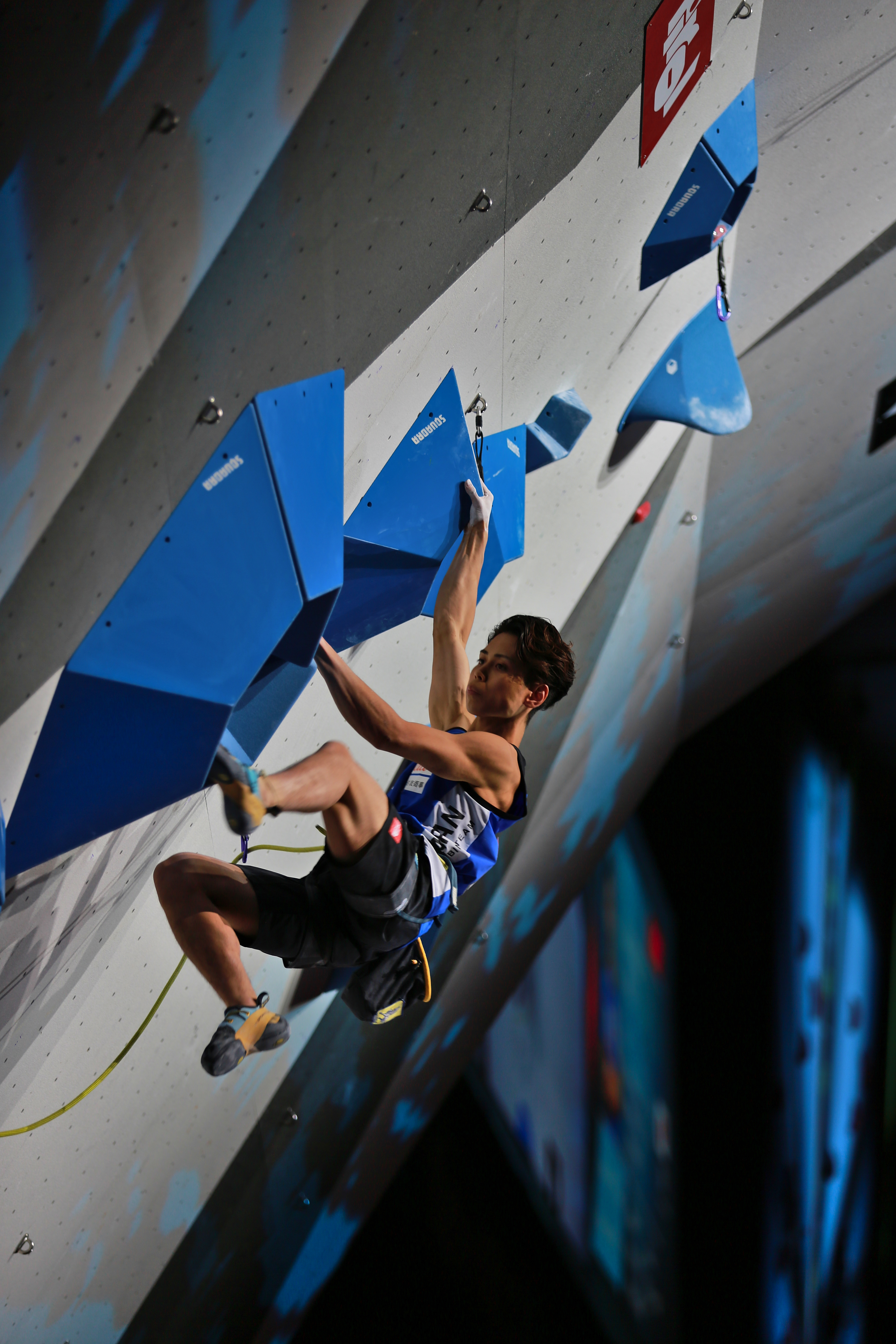 IFSC Climbing World Championships Innsbruck 2018 Final MAN lead 147 HARADA Kai JPN